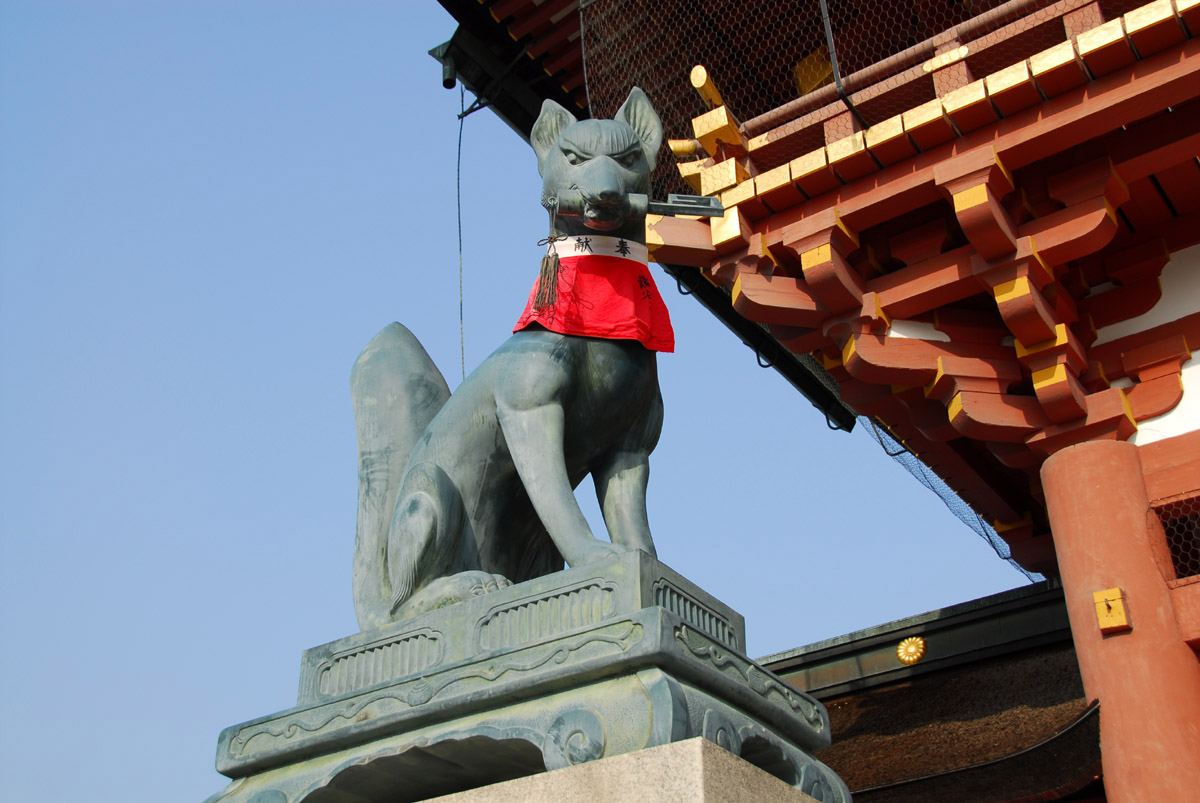 FushimiInari Taisha is a Japanese temple famous for its "Thousand Torii" corridor and fox statues (fox is a messenger of the merchant god). This photo shows the fox statue standing aside the main entrance of the temple.